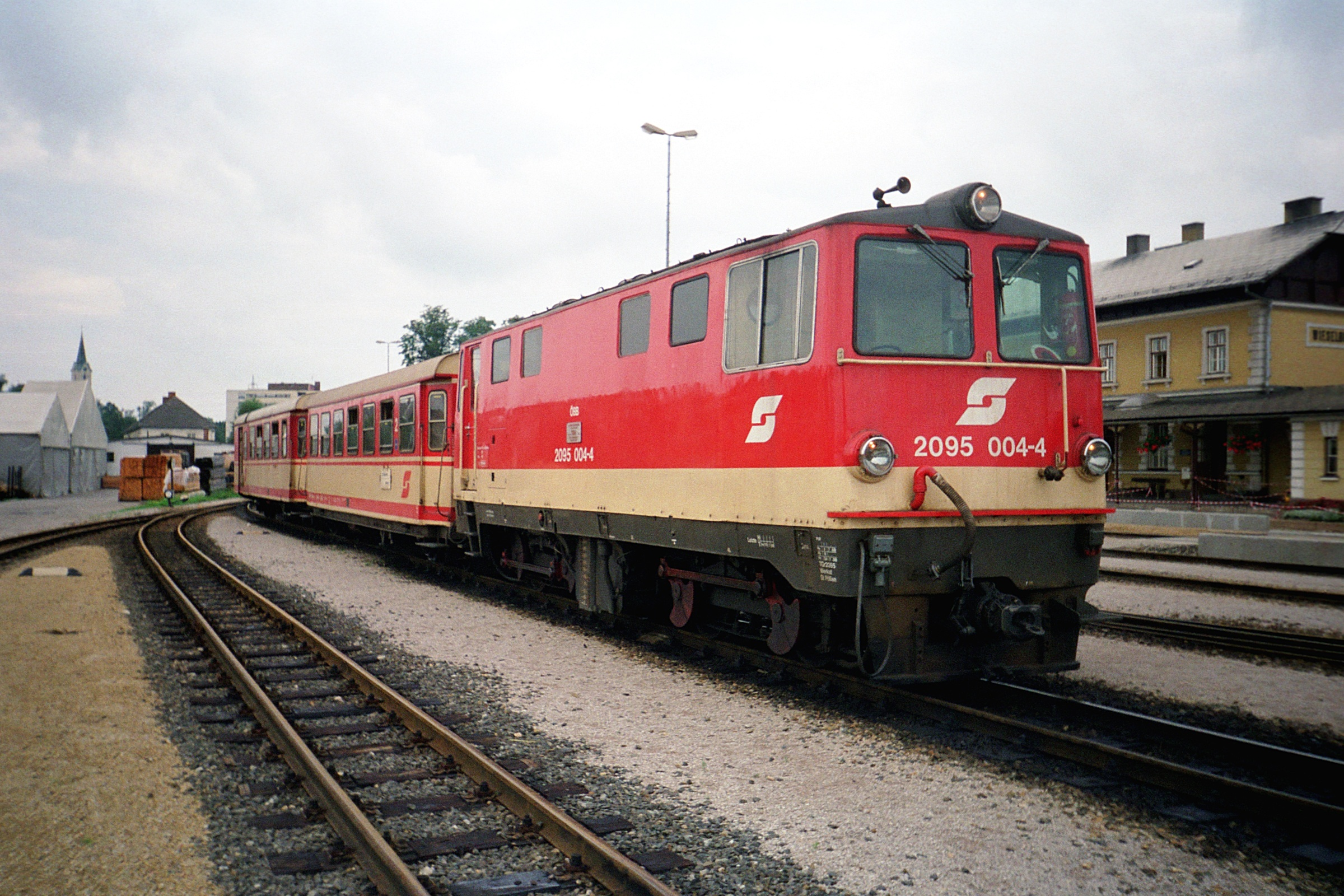 ÖBB 2095 004-4 with a train of the narrow gauge line from Ober Grafendorf to Gresten in Wieselburg an der Erlauf station.